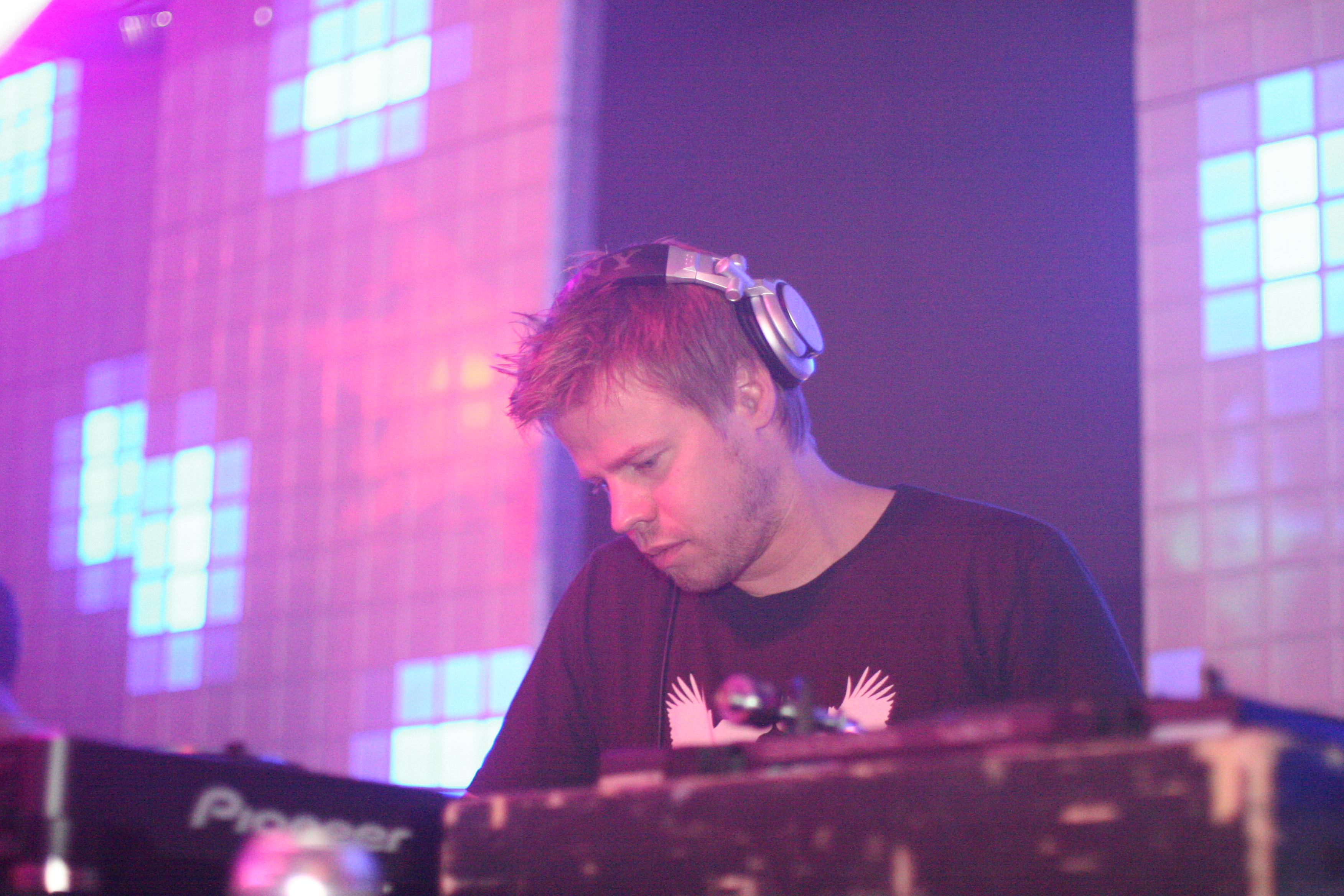 Ferry Corsten performing in Toronto